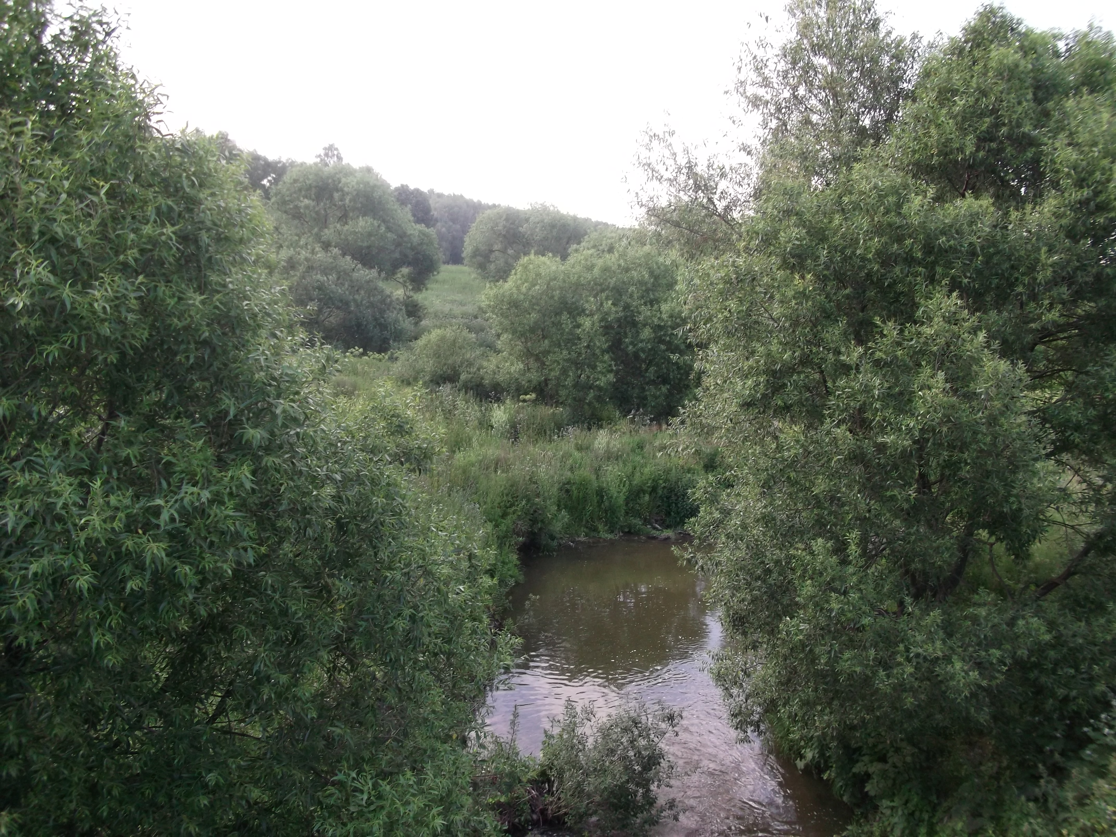 Dudergofka River (Saint Peterburg)